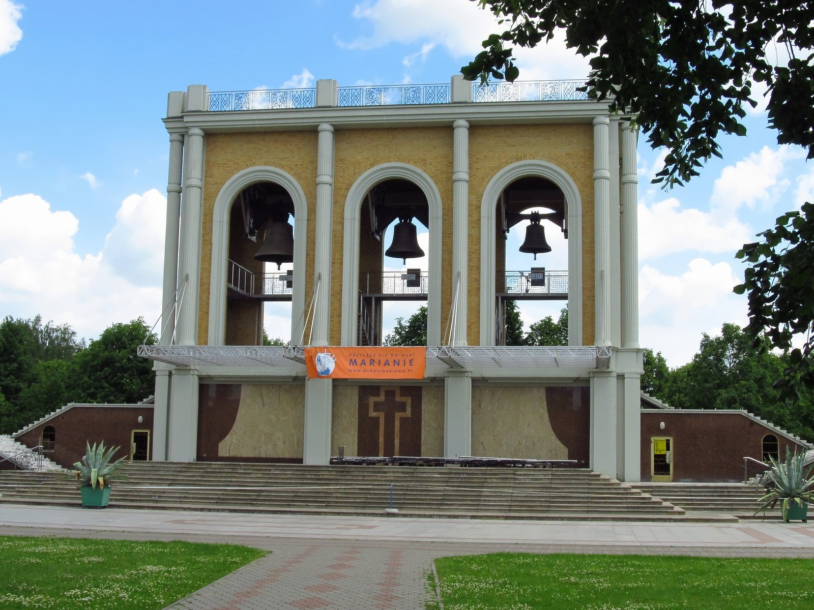 Main bell tower Sanctuary Licheńskie